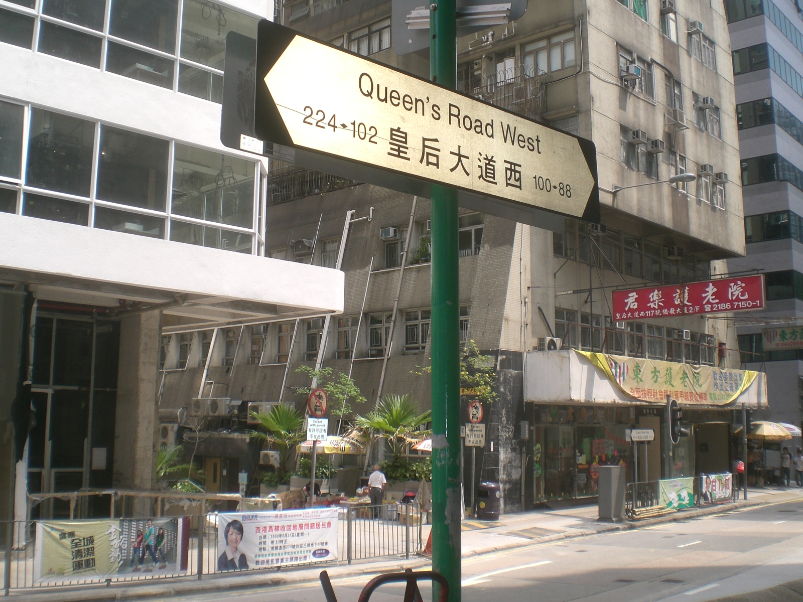 香港島zh:皇后大道西 僑發大廈